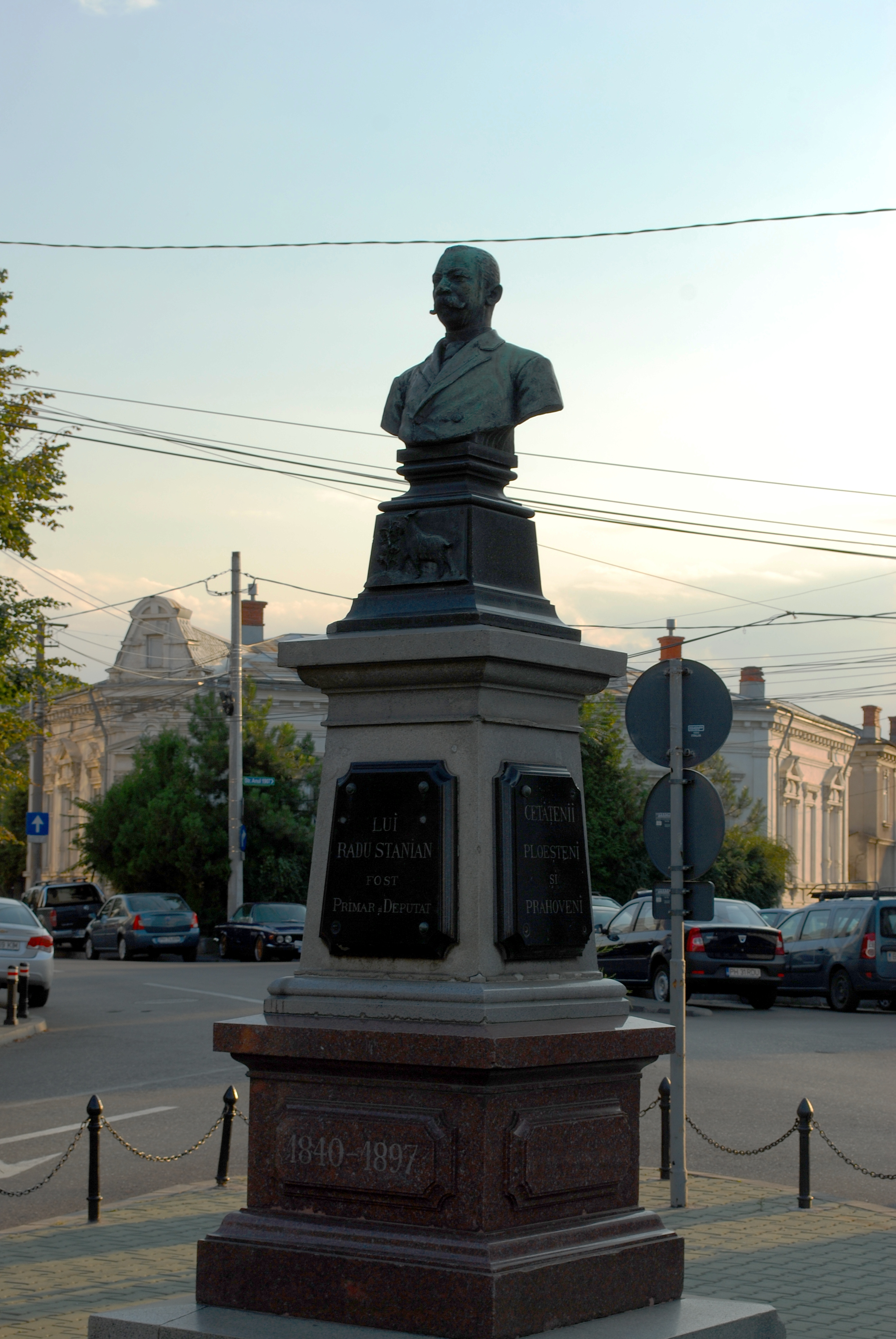 Statue of former mayor Radu Stanian in Ploieşti, RomaniaRomână: Statuia fostului primar Radu Stanian din Ploieşti, România